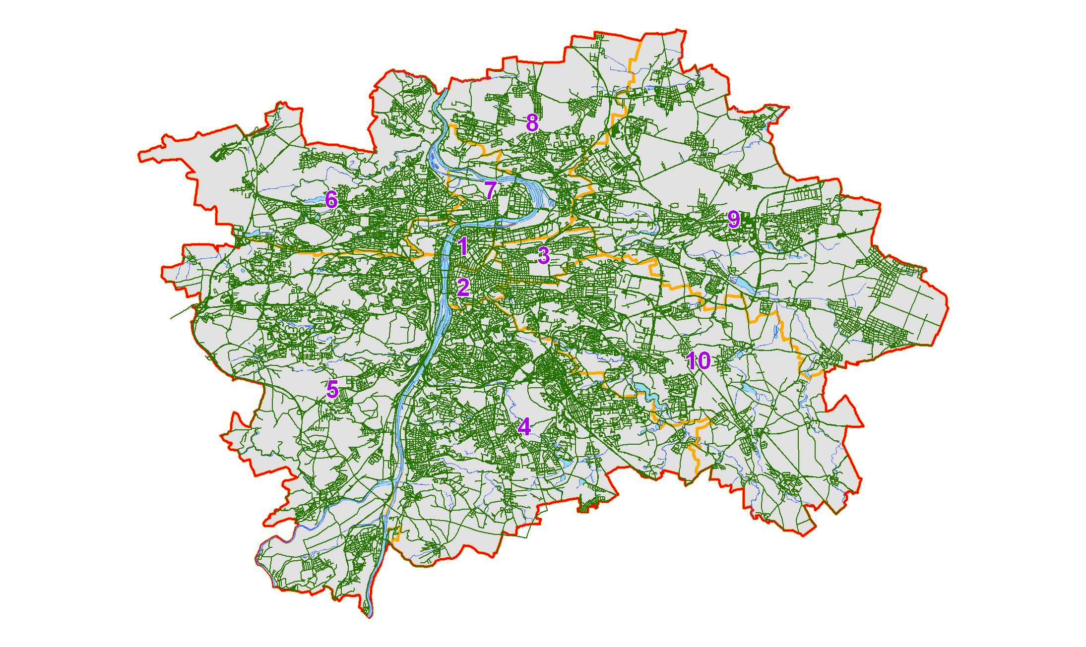 Roads in Prague, Czech Republic